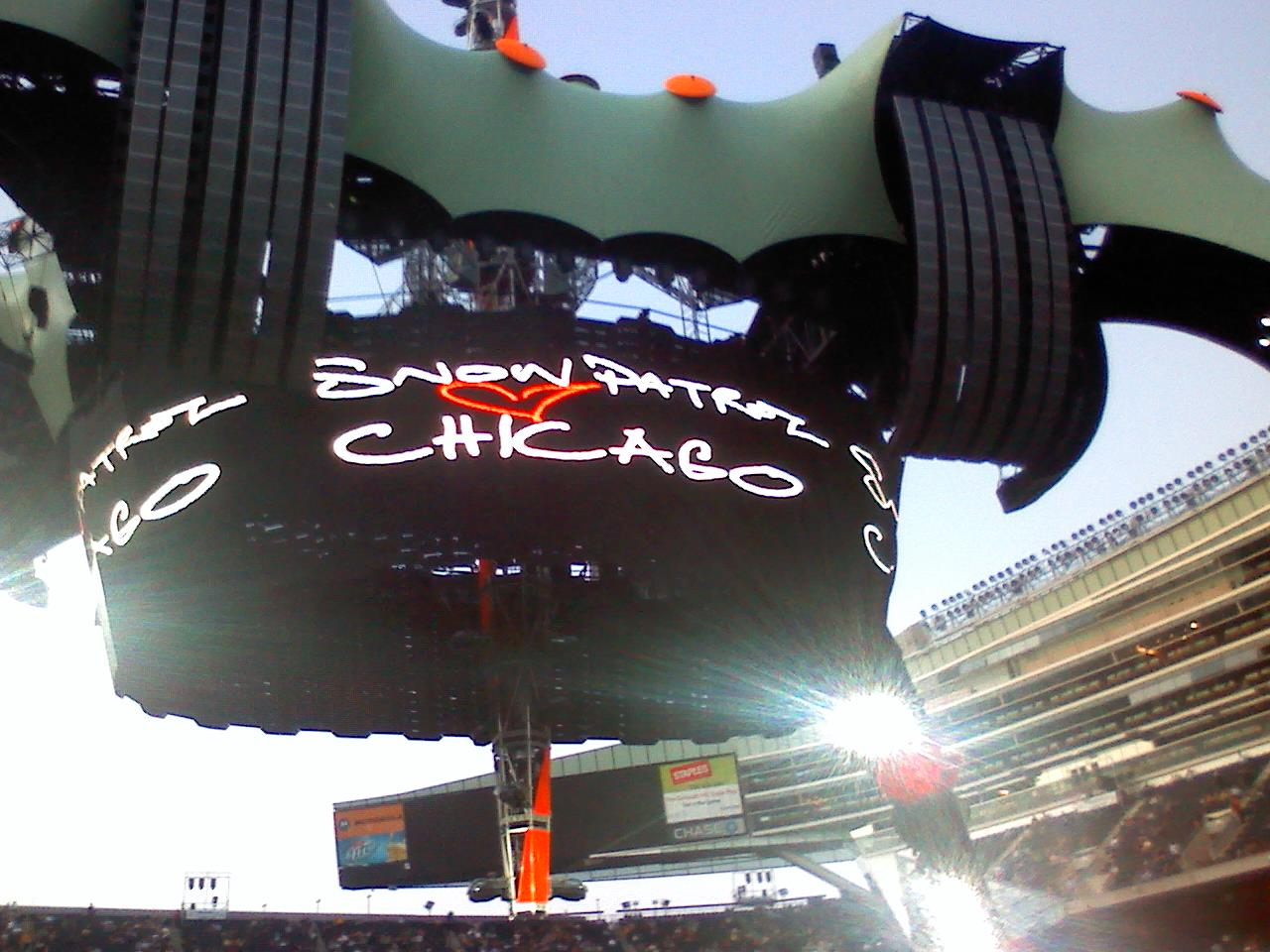 Graphics of Snow Patrol before coming out on stage during the U2 360° Tour at Soldier Field.